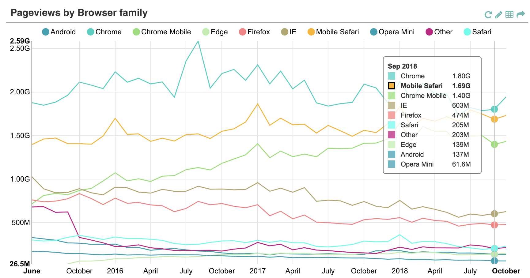 English Wikipedia's traffic by browser family, as viewed through Superset, a reporting tool used by the Wikimedia foundation